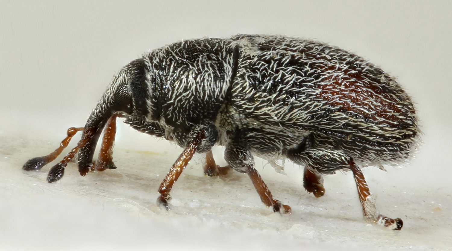 Mecinus pascuorum, Deeside, North Wales, June 2015